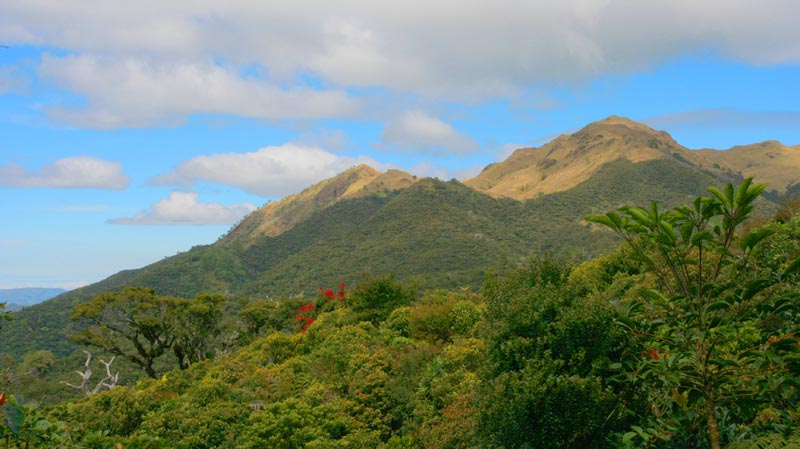 Photo of Mount Pulag, Benguet Tagalog: Bundok Pulag